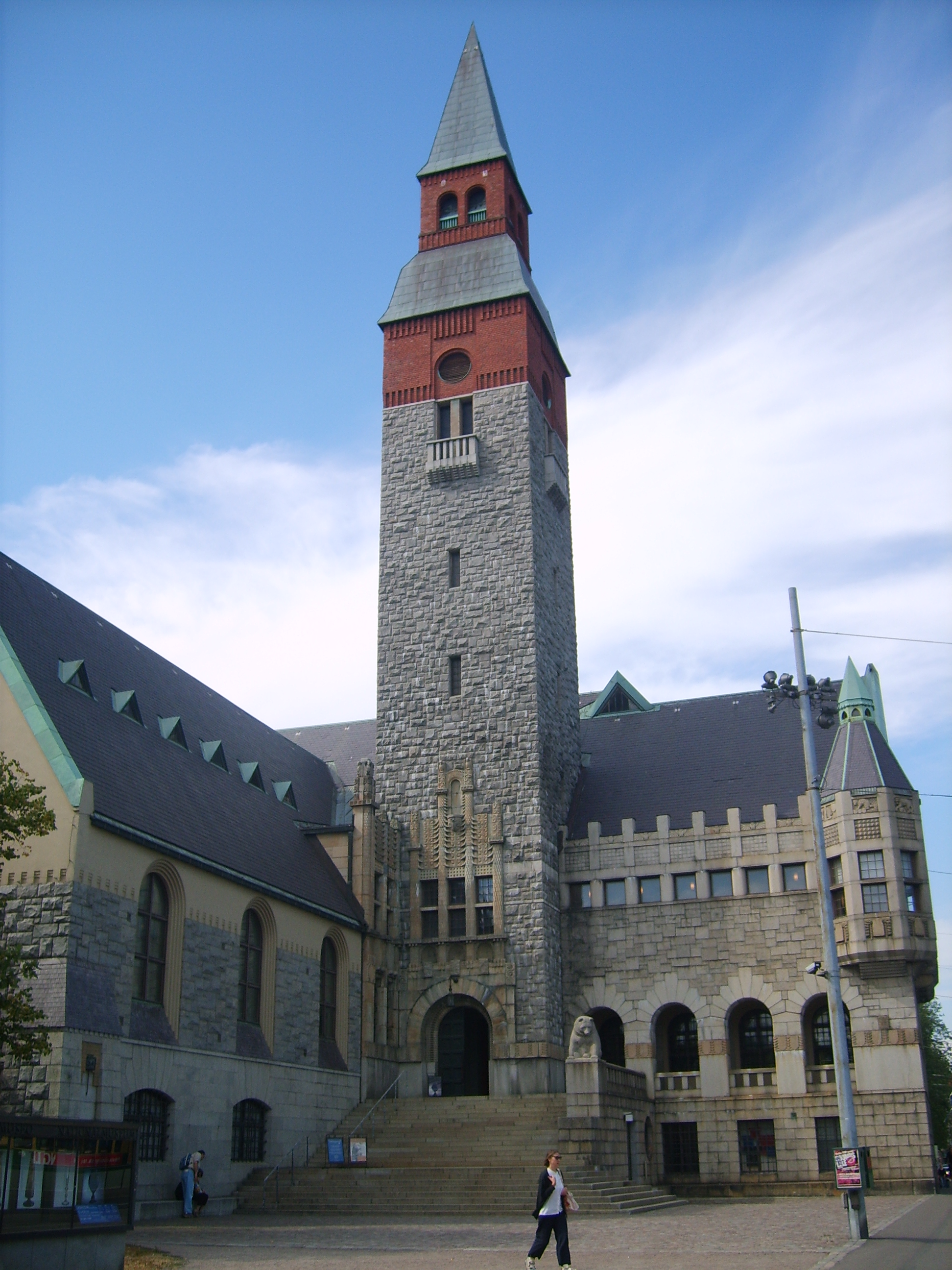 The National Museum of Finland (Suomen kansallismuseo), Museokatu 1 / Mannerheimintie 34, Helsinki. Built 1905-1910. Architects: Herman Gesellius, Armas Lindgren and Eliel Saarinen.